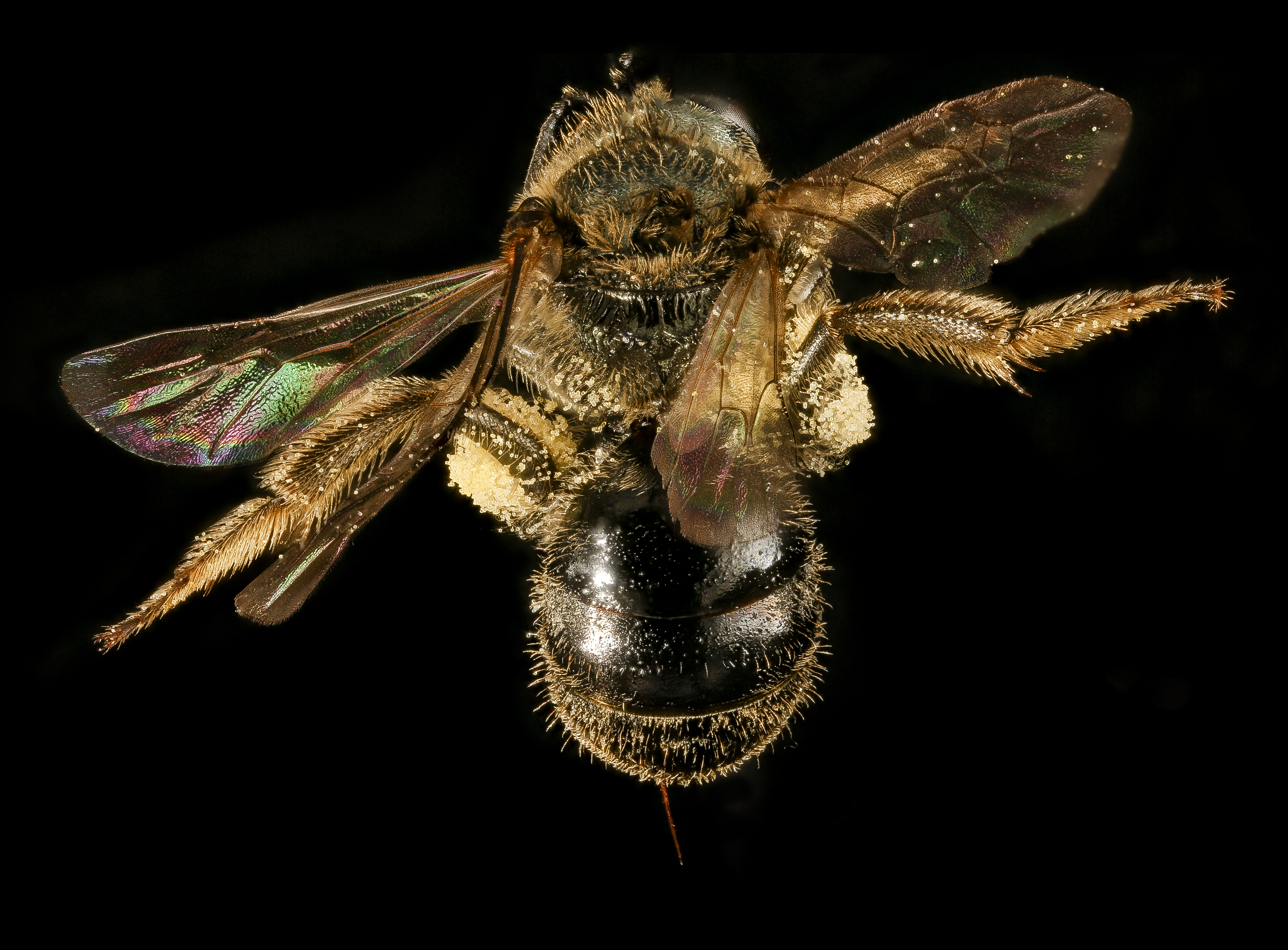 Brianne Du Clos, collected this common Lasioglossum in Maine...probably in or near a blueberry field. Unlike most of our specimens you can see the pollen all over this specimen. Photograph by Dejen Mengis. 06:59, 1 January 2016 (UTC)06:59, 1 January 2016 (UTC) 0 06:59, 1 January 2016 (UTC)06:59, 1 January 2016 (UTC) All photographs are public domain, feel free to download and use as you wish. Photography Information: Canon Mark II 5D, Zerene Stacker, Stackshot Sled, 65mm Canon MP-E 1-5X macro lens, Twin Macro Flash in Styrofoam Cooler, F5.0, ISO 100, Shutter Speed 200 Beauty is truth, truth beauty - that is all Ye know on earth and all ye need to know " Ode on a Grecian Urn" John Keats You can also follow us on Instagram account USGSBIML Want some Useful Links to the Techniques We Use? Well now here you go Citizen: Art Photo Book: Bees: An Up-Close Look at Pollinators Around the World Basic USGSBIML set up: USGSBIML Photoshopping Technique: Note that we now have added using the burn tool at 50% opacity set to shadows to clean up the halos that bleed into the black background from "hot" color sections of the picture. PDF of Basic USGSBIML Photography Set Up: ftp://ftpext.usgs.gov/pub/er/md/laurel/Droege/How%20to%20Take%20MacroPhotographs%20of%20Insects%20BIML%20Lab2.pdf Google Hangout Demonstration of Techniques: or Excellent Technical Form on Stacking: Contact information: Sam Droege 301 497 5840